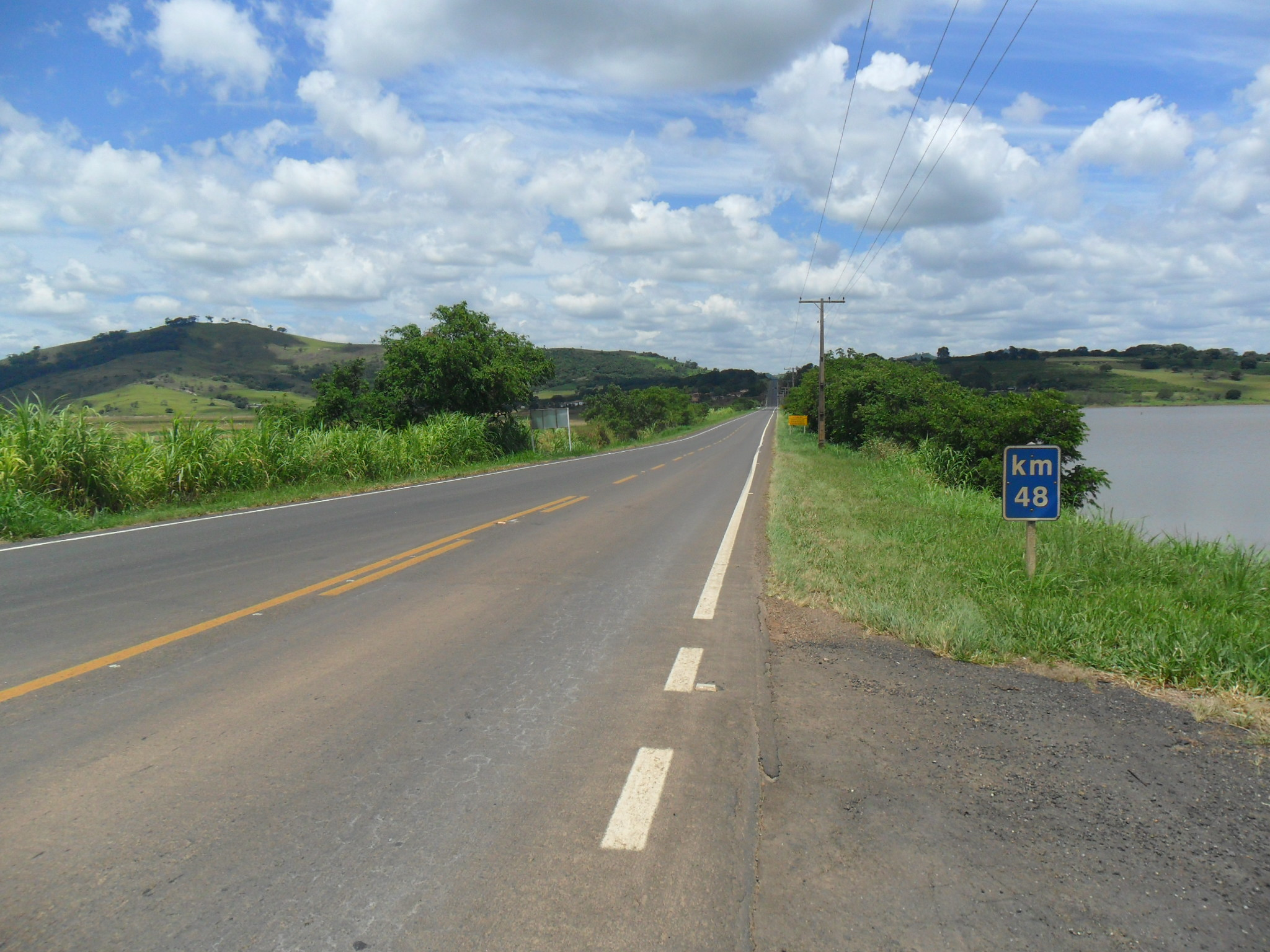 Road MG-184 in Alterosa, Minas Gerais, Brazil